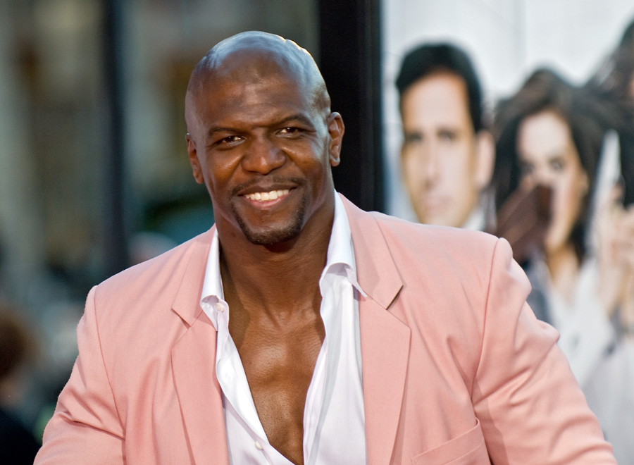 Terry Crews arrives for the Get Smart premiere, Fox Theater, Westwood, CA.